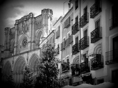 A Black and White Photo of the Cuenca Cathedral in Spain